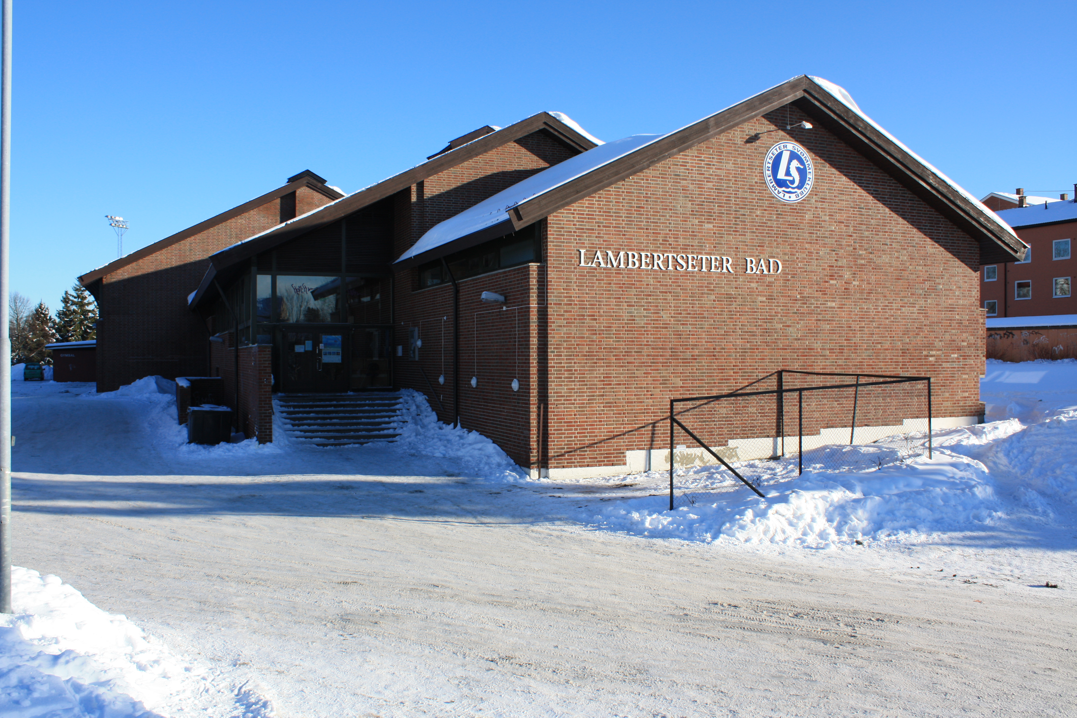 Image of Lambertseter bad